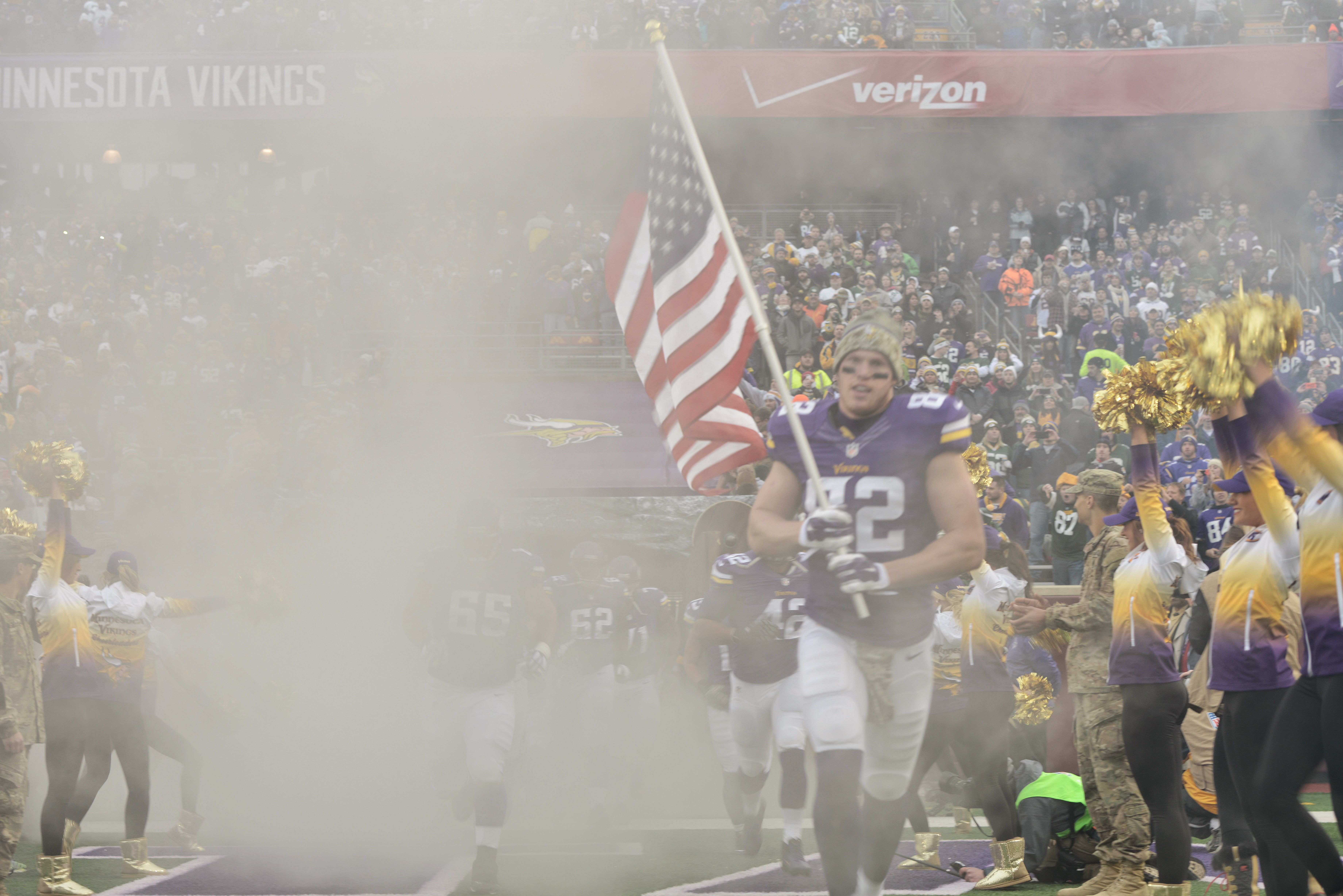 Service members from all branches celebrated the Minnesota Vikings’ Military Appreciation Day at the University of Minnesota Field on Nov. 23, 2014. Recognized were members of the 114th Transportation Company – recently returned from Afghanistan – who unfurled the large flag, ran the Red Bull flag with the Vikings’ Flag Runners and marched onto the field to report to Minnesota National Guard Adjutant General, Maj. Gen. Richard C. Nash, and Senior Enlisted Advisor, Command Sgt. Maj. Douglas Wortham. Additionally, Sgt. Thomas Block, 2014 Army Times Soldier of the Year, blew the Gjallarhorn after a joint color guard and all-branches flag presentation were displayed on the field during the singing of the National Anthem by two service members – Airman 1st Class Brooke Colby and Staff Sgt. Ryan Ringwelski. Also recognized were three WWII veterans – Capt. Ted Homdrom, Cpl. Wayne DeVries and Quartermaster 3rd Class Bill Ringold – in addition to Sgt. Baxley, who recently saved a man from a burning vehicle, and 1st Sgt. Robert Renning, who also saved a man from a burning vehicle.